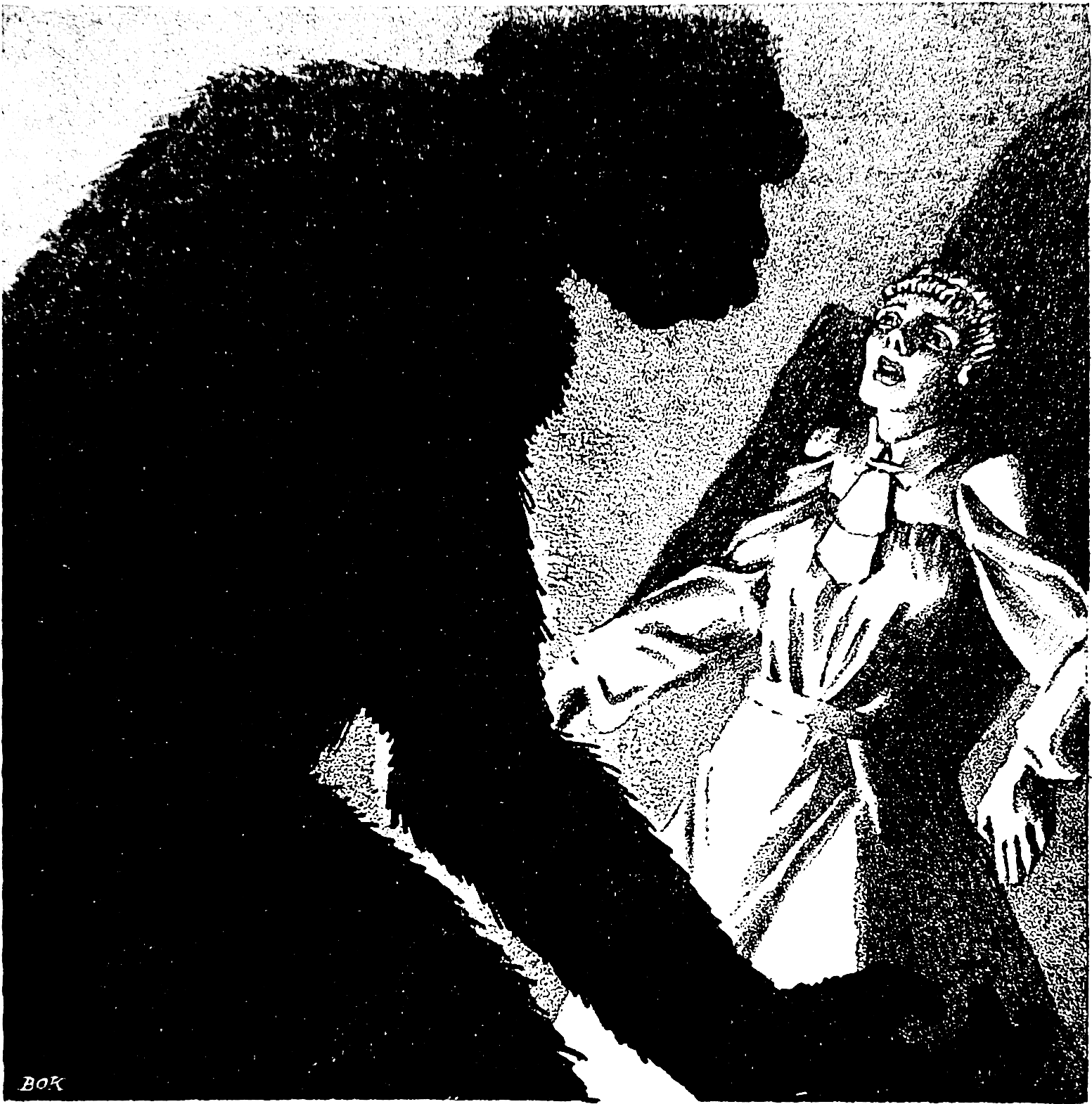 Main illustration for the novelette "Birthmark." Internal Illustration from the pulp magazine Weird Tales (September 1941, vol. 36, no. 1).